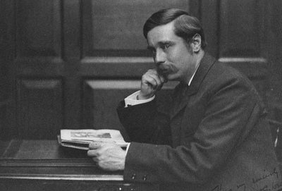 HG Wells